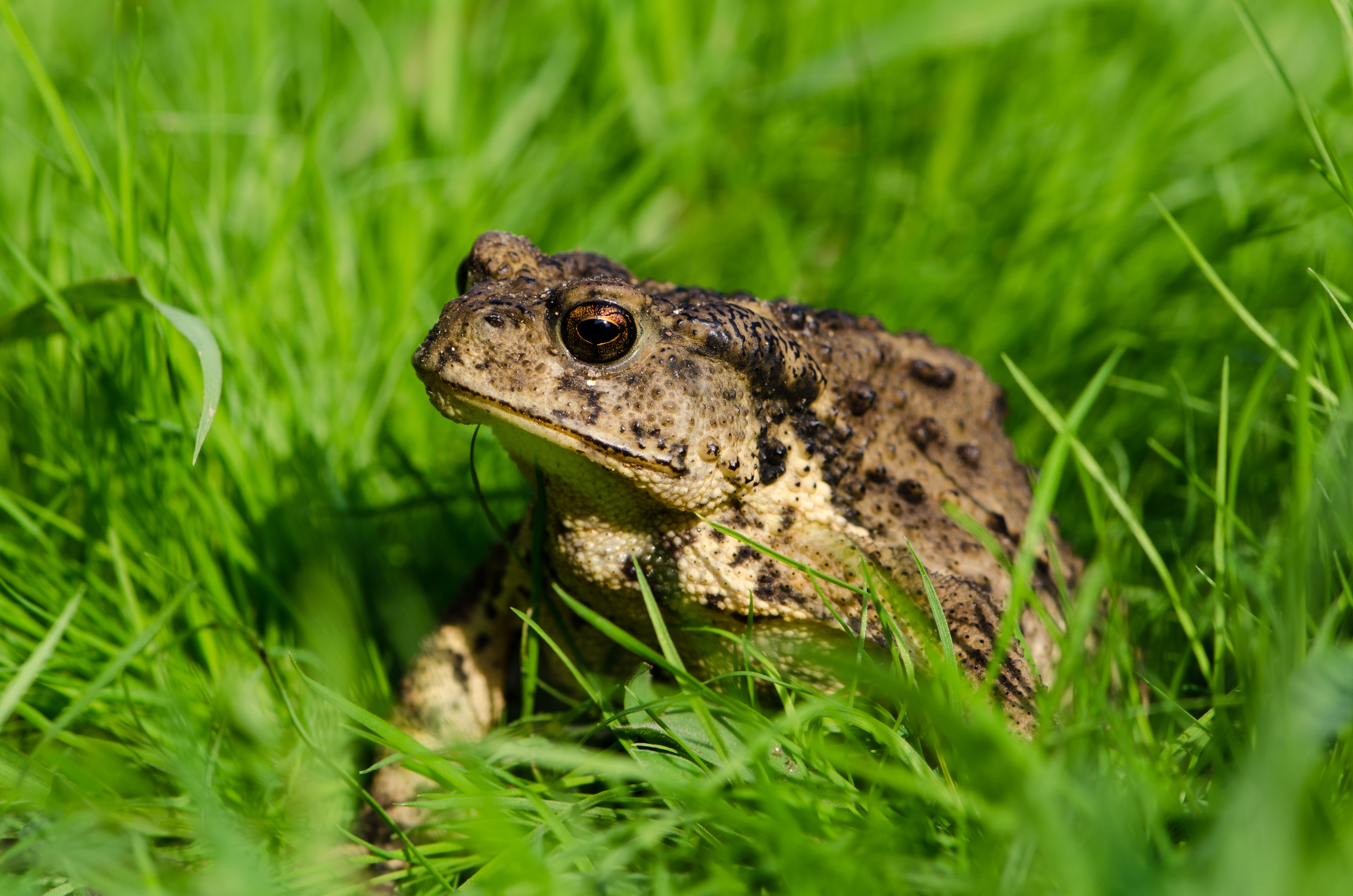 Bufo gargarizans (Asiatic toad) photographed in a garden in Liaoning Province, China